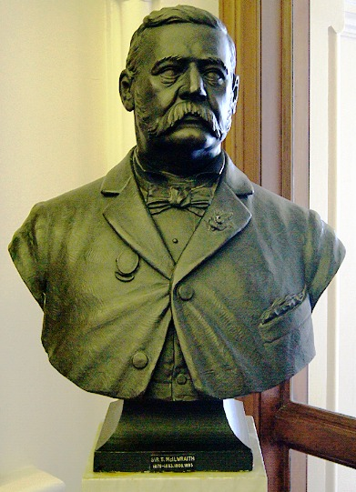 Bronze Bust of Sir Thomas McIlwraith held at Queensland Parliament by sculptor James Laurence Watts